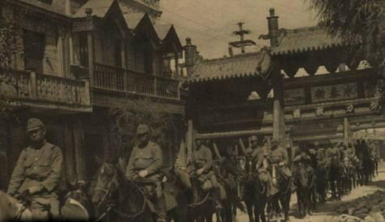 Japanese Army invaded Datong in Sept 13, 1937